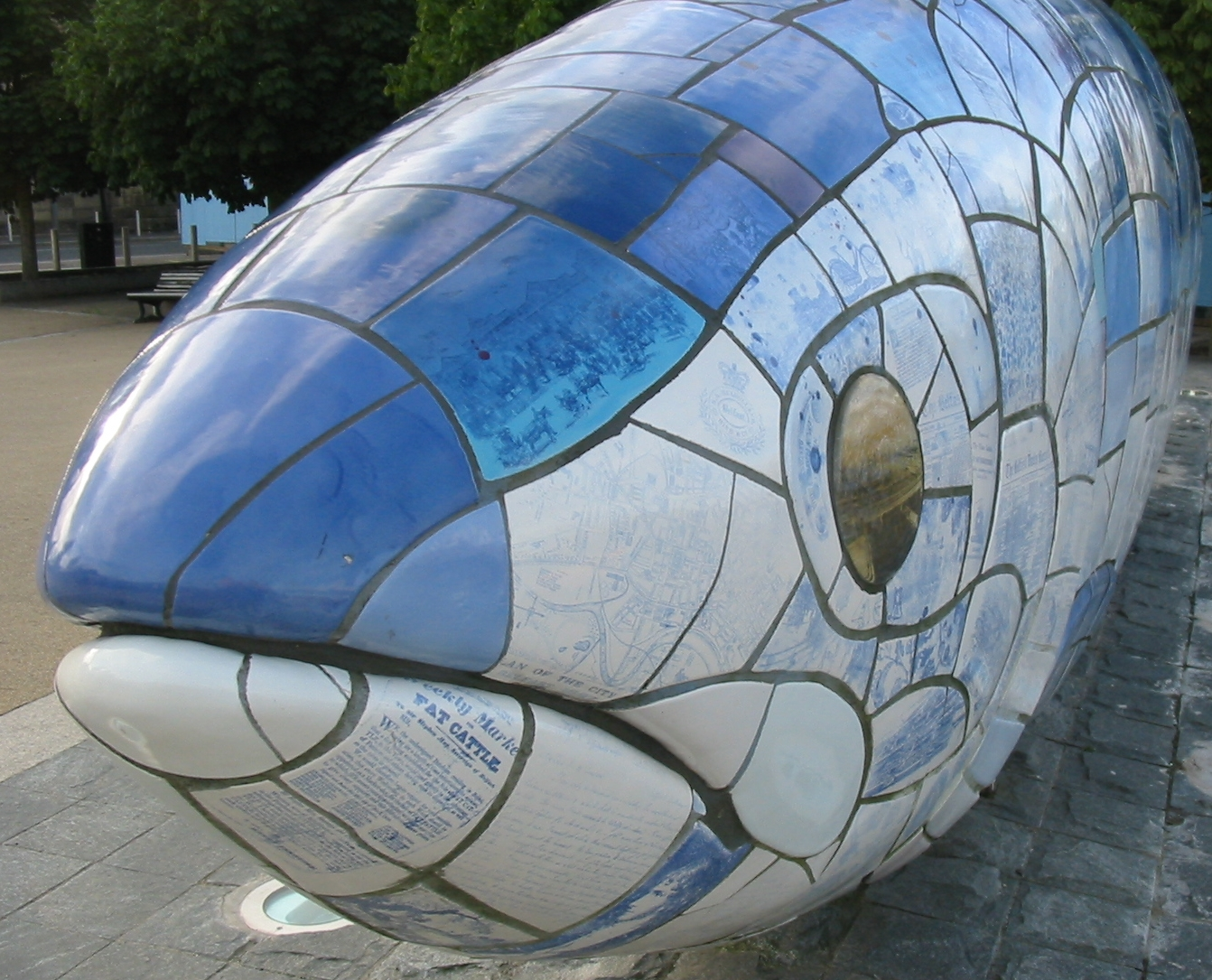 Bigfish public art, Belfast